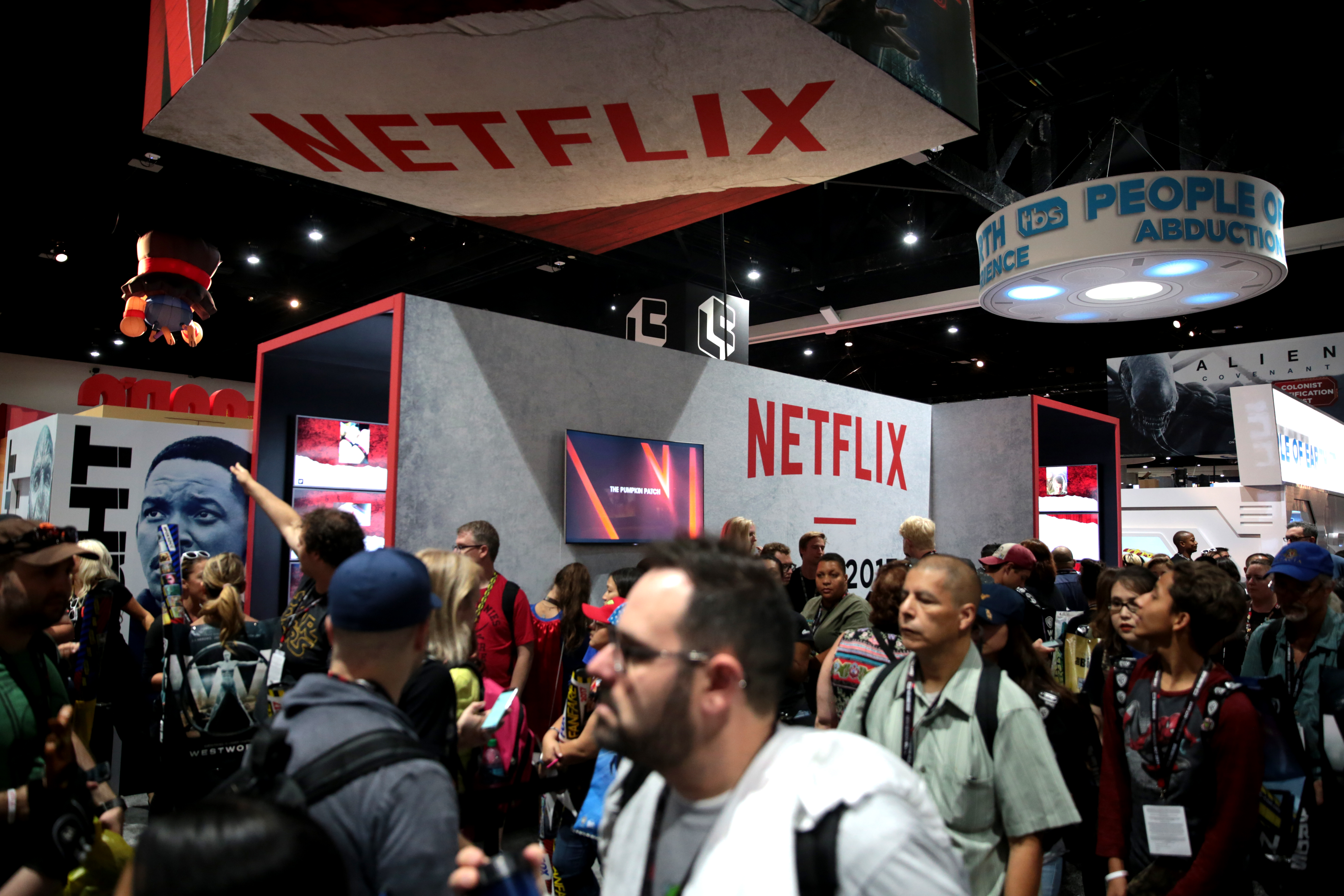 Netflix booth at the 2017 San Diego Comic-Con International at the San Diego Convention Center in San Diego, California.